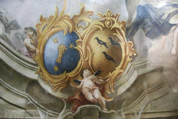 Rococo-detail door Johann Adam Schöpf in de Gerlachuskerk in Houthem Houtem